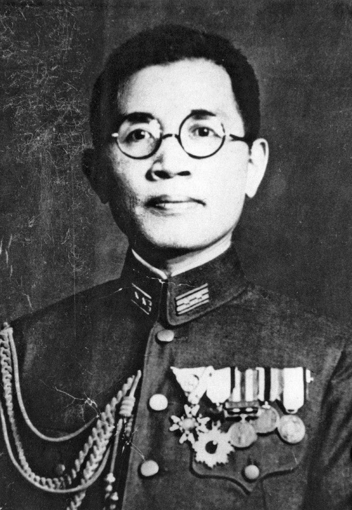 Hiromichi Yahara (八原博通) in an IJA lieutenant colonel's uniform (thus, the photograph was taken between August 1939 and March 1943).